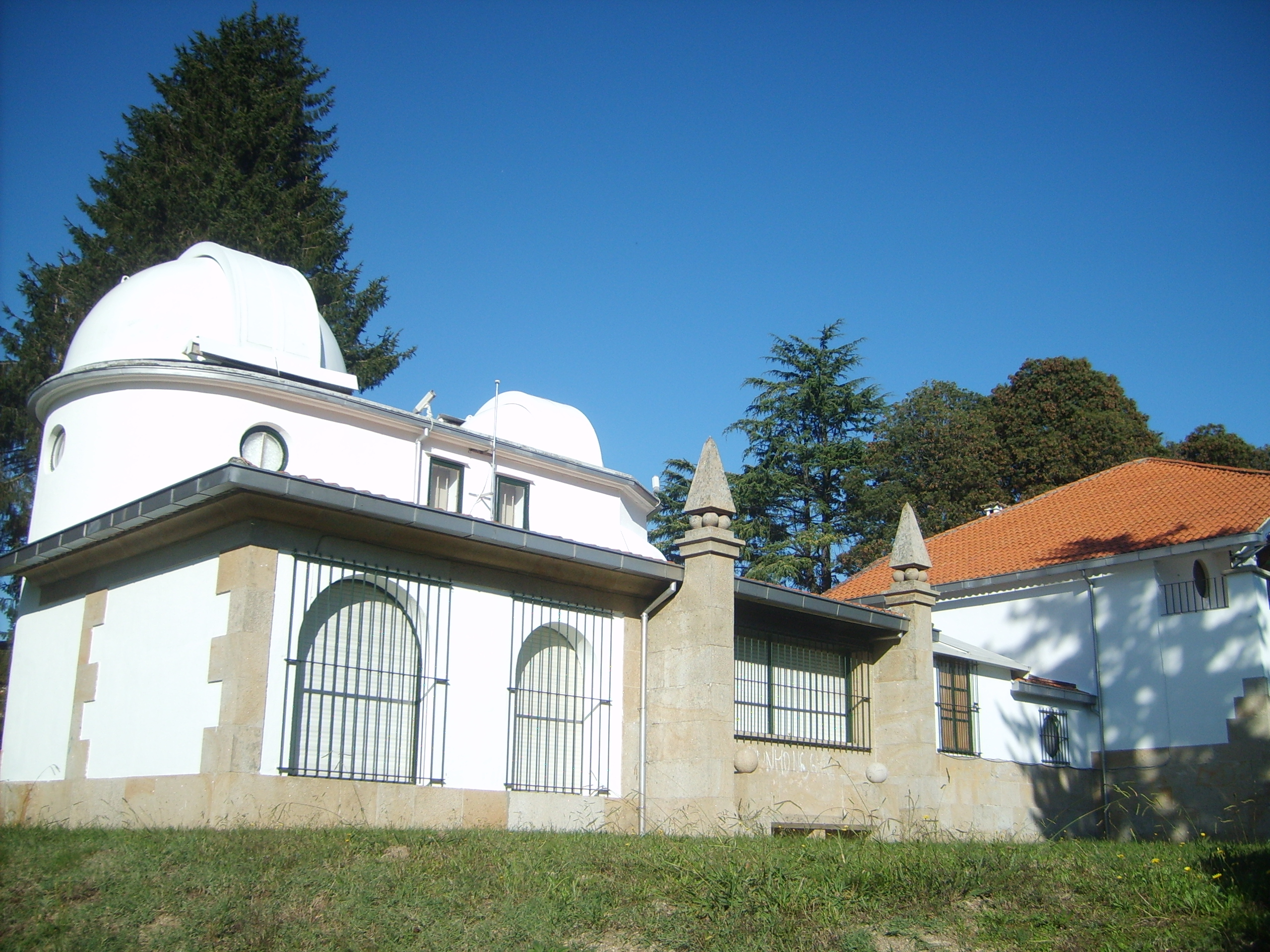 Ramón María Aller astronomical observatory, in the campus of the University of Santiago de Compostela, in Galicia, Spain.